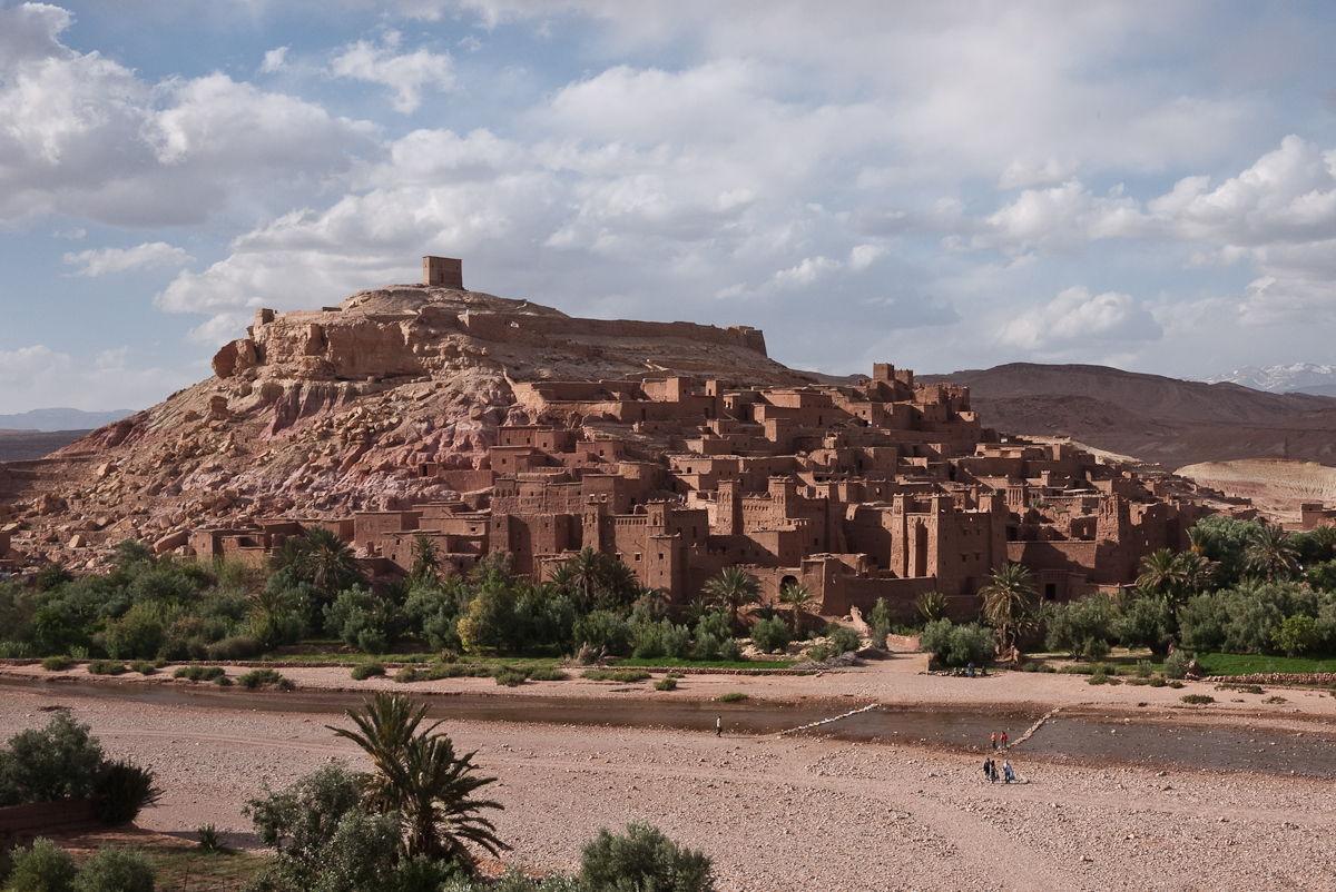 Grand Kasbah of Aït Benhaddou, Morocco.